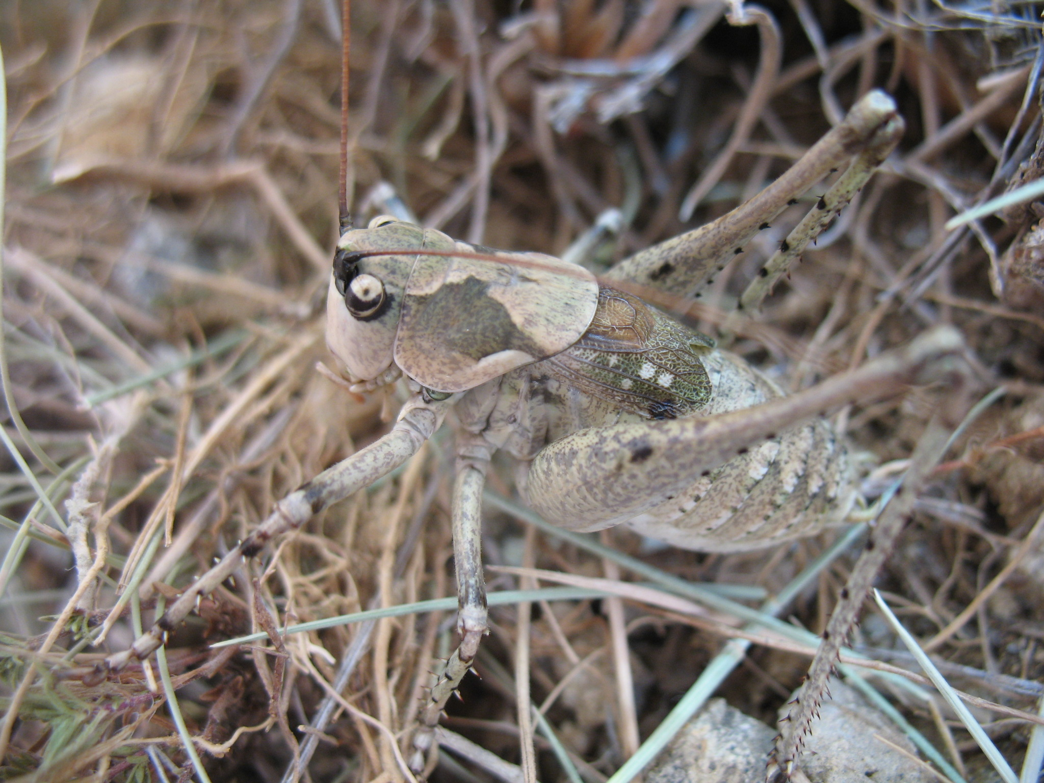 Male Anadrymadusa retowskii from Koktebel, Crimea, Ukraine.